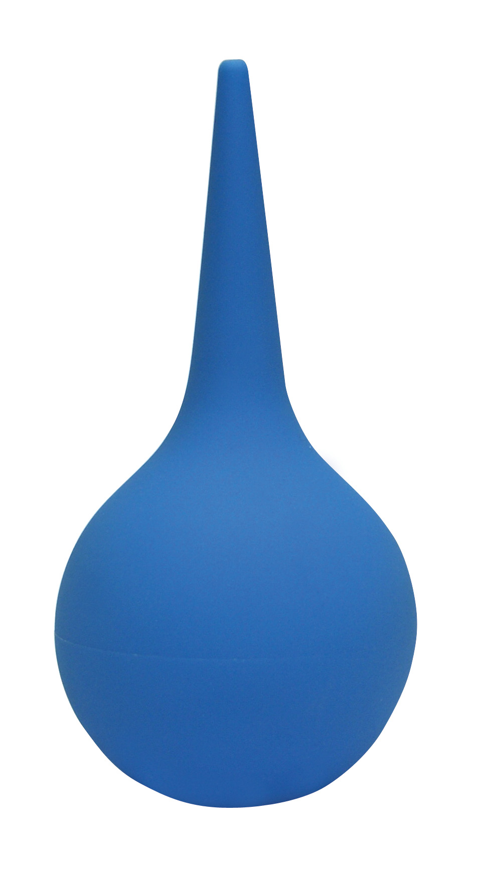 Syringe type A